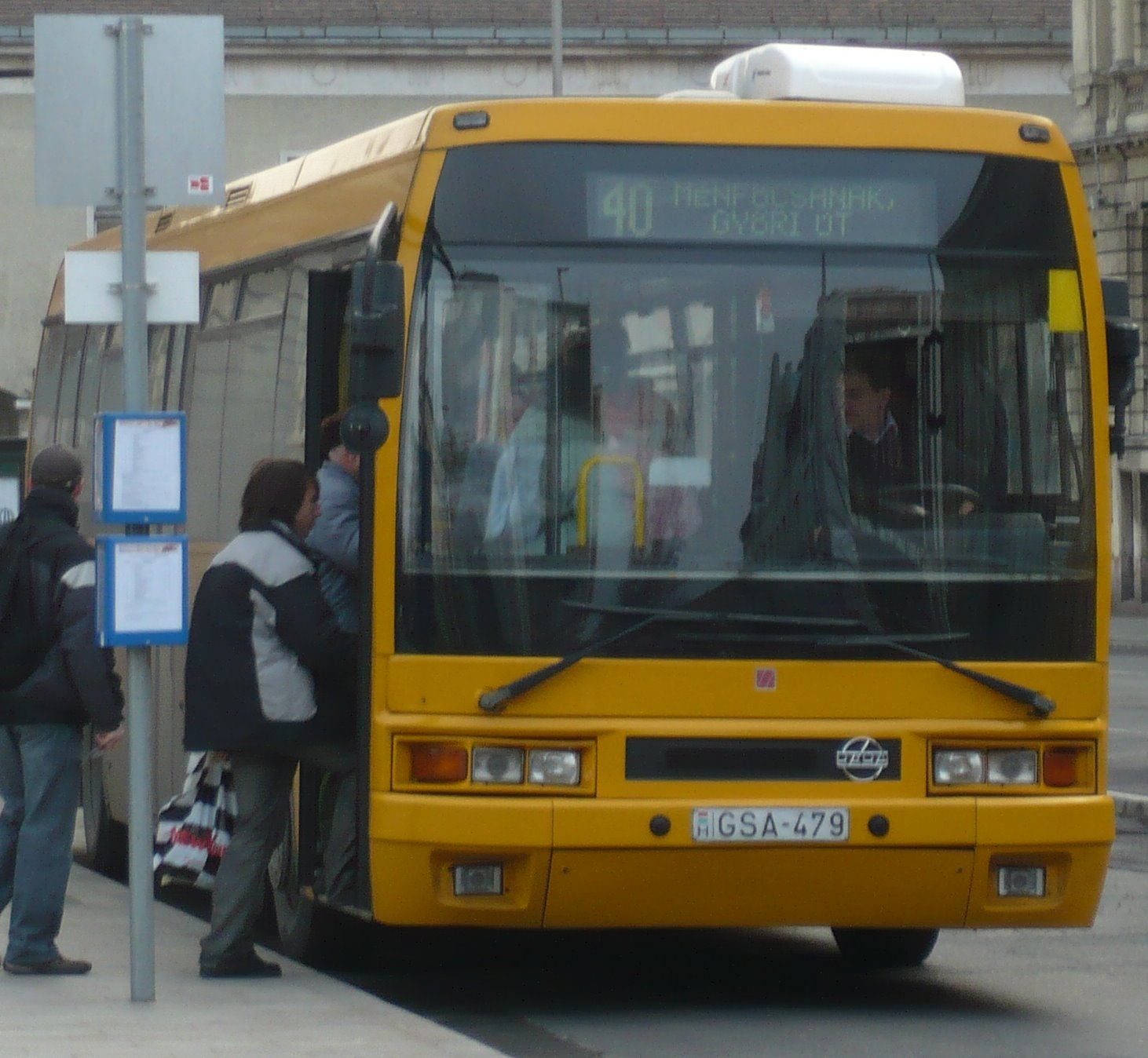 Ikarus E94 bus in Győr